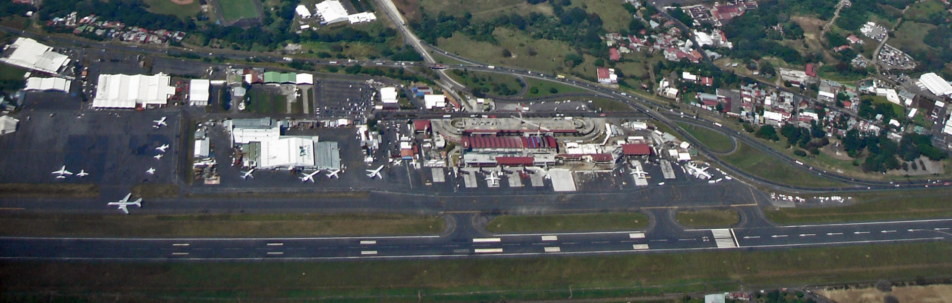 Aerial view Juan Santamaría International Airport (SJO), Costa Rica